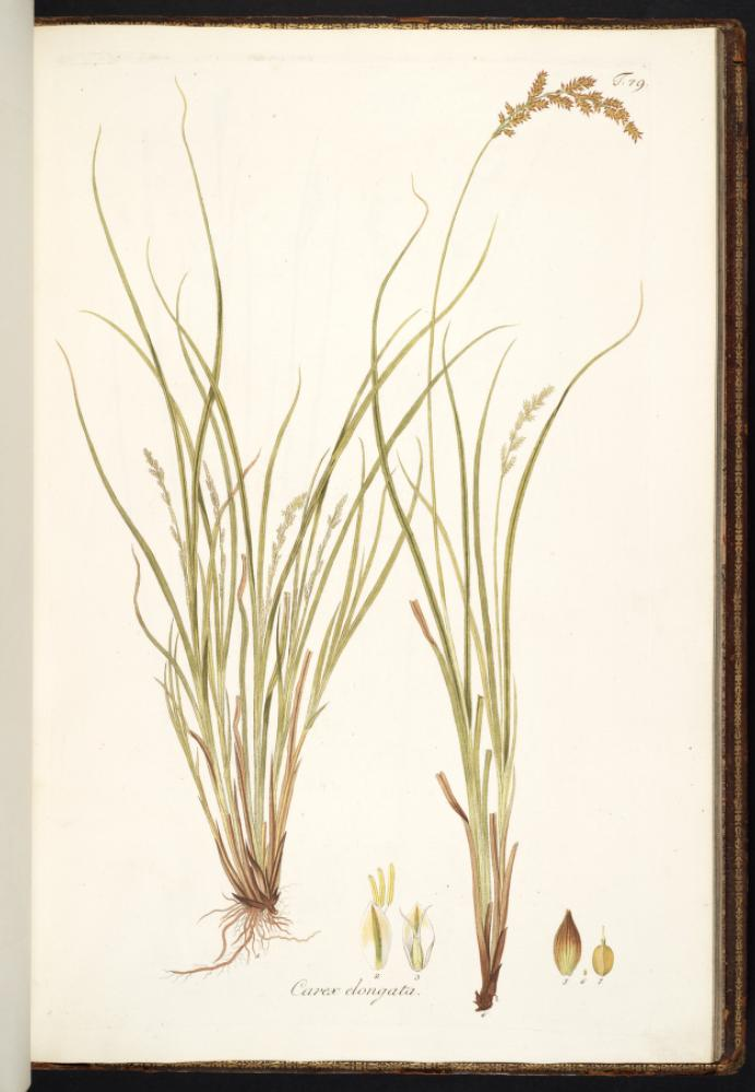 Illustration of Carex elongata